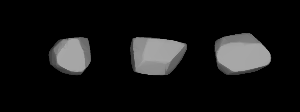 A three-dimensional model of 874 Rotraut that was computed using light curve inversion techniques.